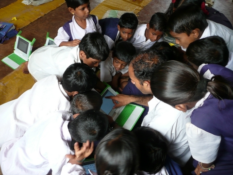 Teacher showing children OLPC XO-1 in India, Khairat.